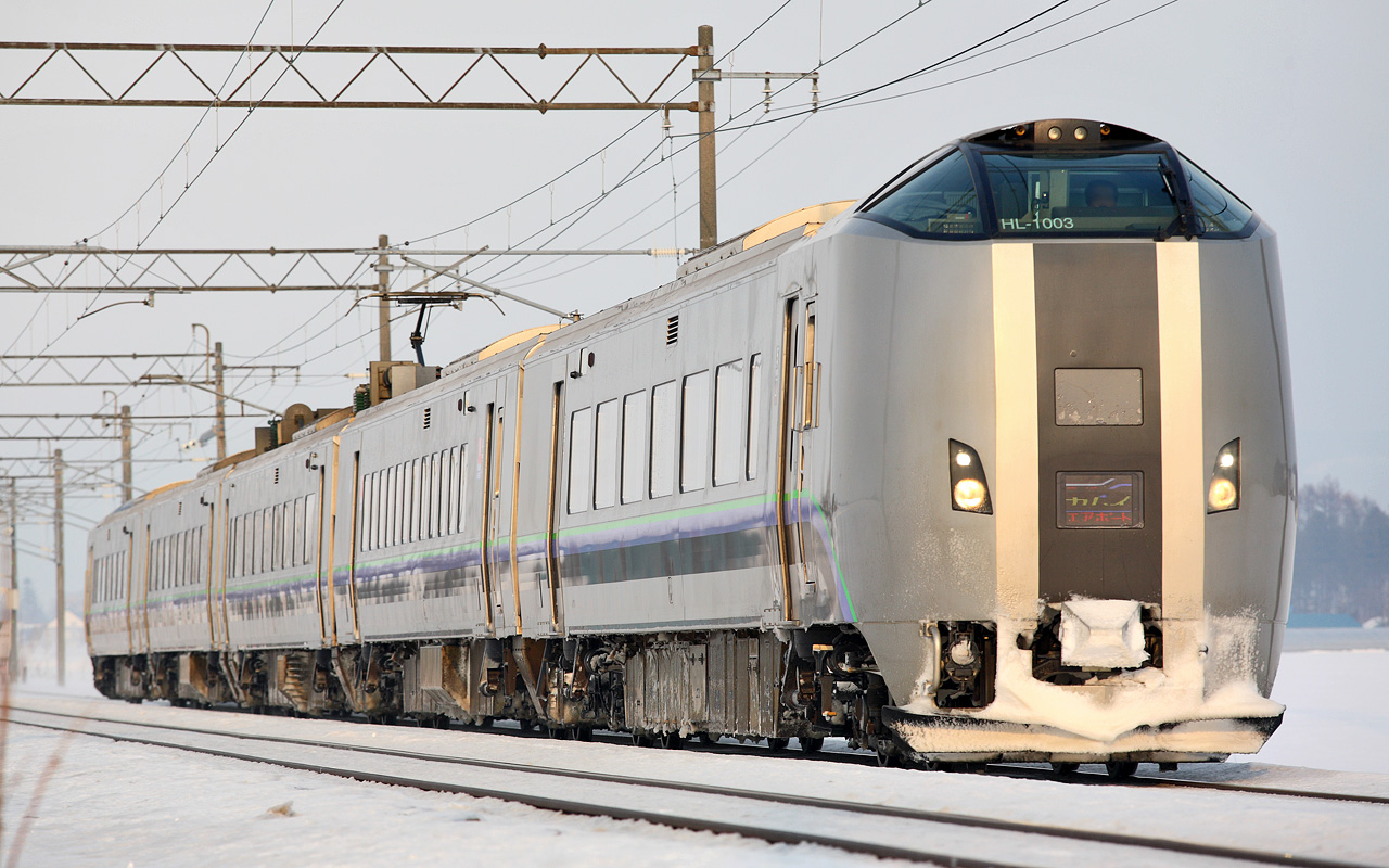 JR Hokkaido 789-1000 series EMU set HL-1003 on a Super Kamui / Airport service (2032M) between Minenobu and Iwamizawa stations on the Hakodate Main Line